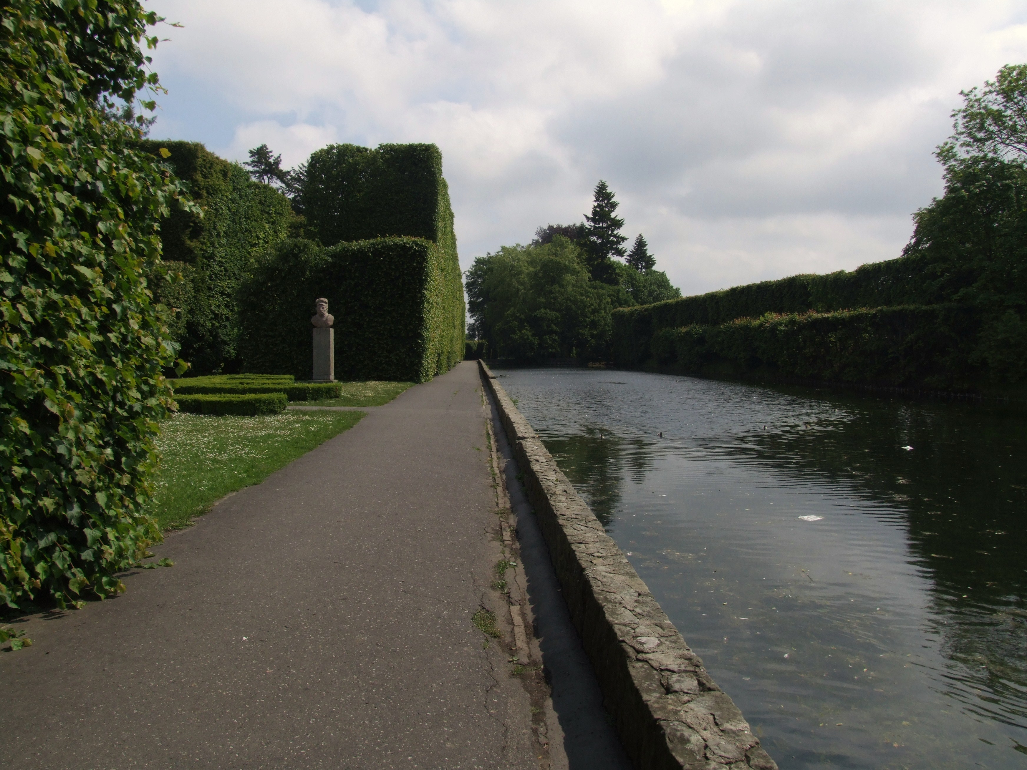 Fountain at Adam Mickiewicz Park in Oliwa.